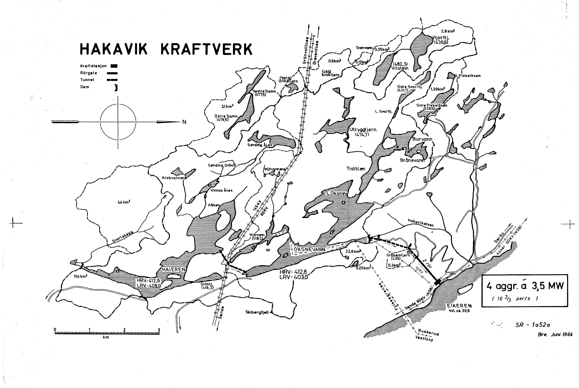 Map of Hakavik power plant and reservoirs. Published with permission from Statkraft by Trond Rostad, permission granted 14 June 2010.